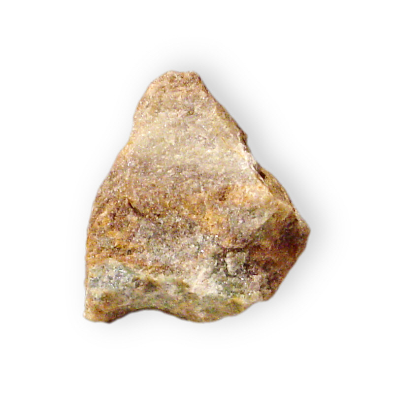 These mineral images are free to use how you wish.